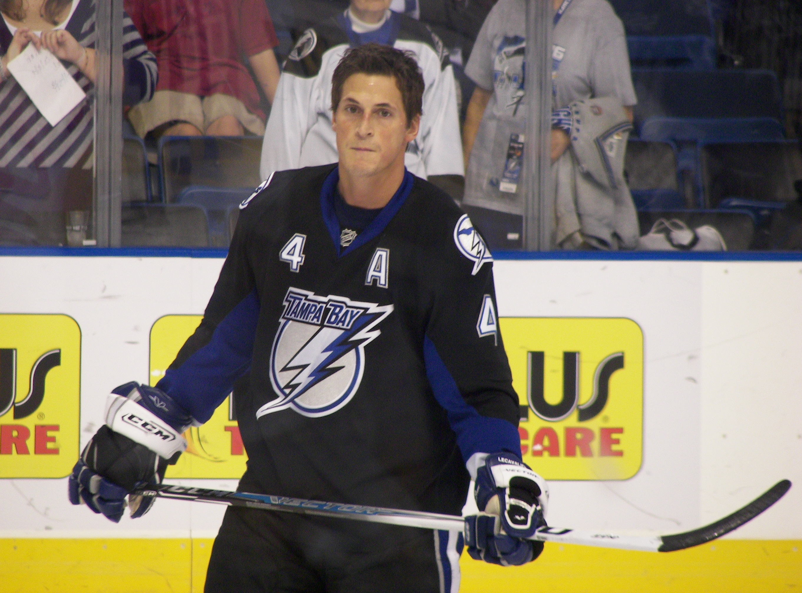 Vincent Lecavalier of the Tampa Bay Lightning during a Lightning vs. Atlanta Thrashers ice hockey game at the St. Pete Times Forum in Tampa, Florida on October 20, 2007.